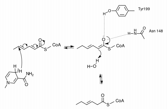 Schematic of 2,4-Trans dienoyl-CoA reduction by NADPH. The mechanism proceeds through an enolate intermediate.